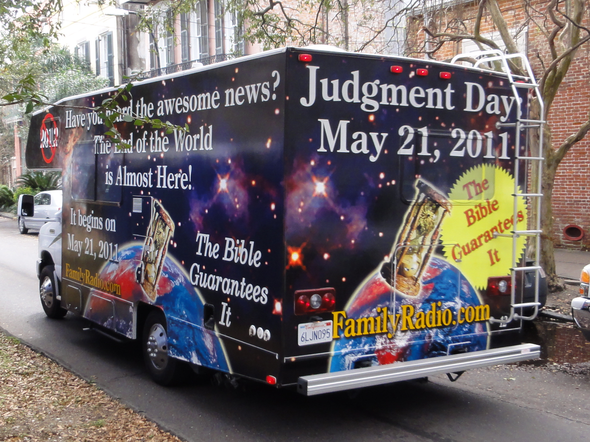 New Orleans. We saw five of these buses heading down Esplanade in a row. Truck with announcement of the of "End of the World" on May 2011, 2011 per the prediction of Harold Camping.